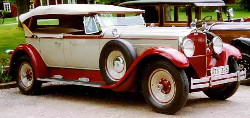 Packard Sixth Series 645 De Luxe Eight Dual Cowl 1929